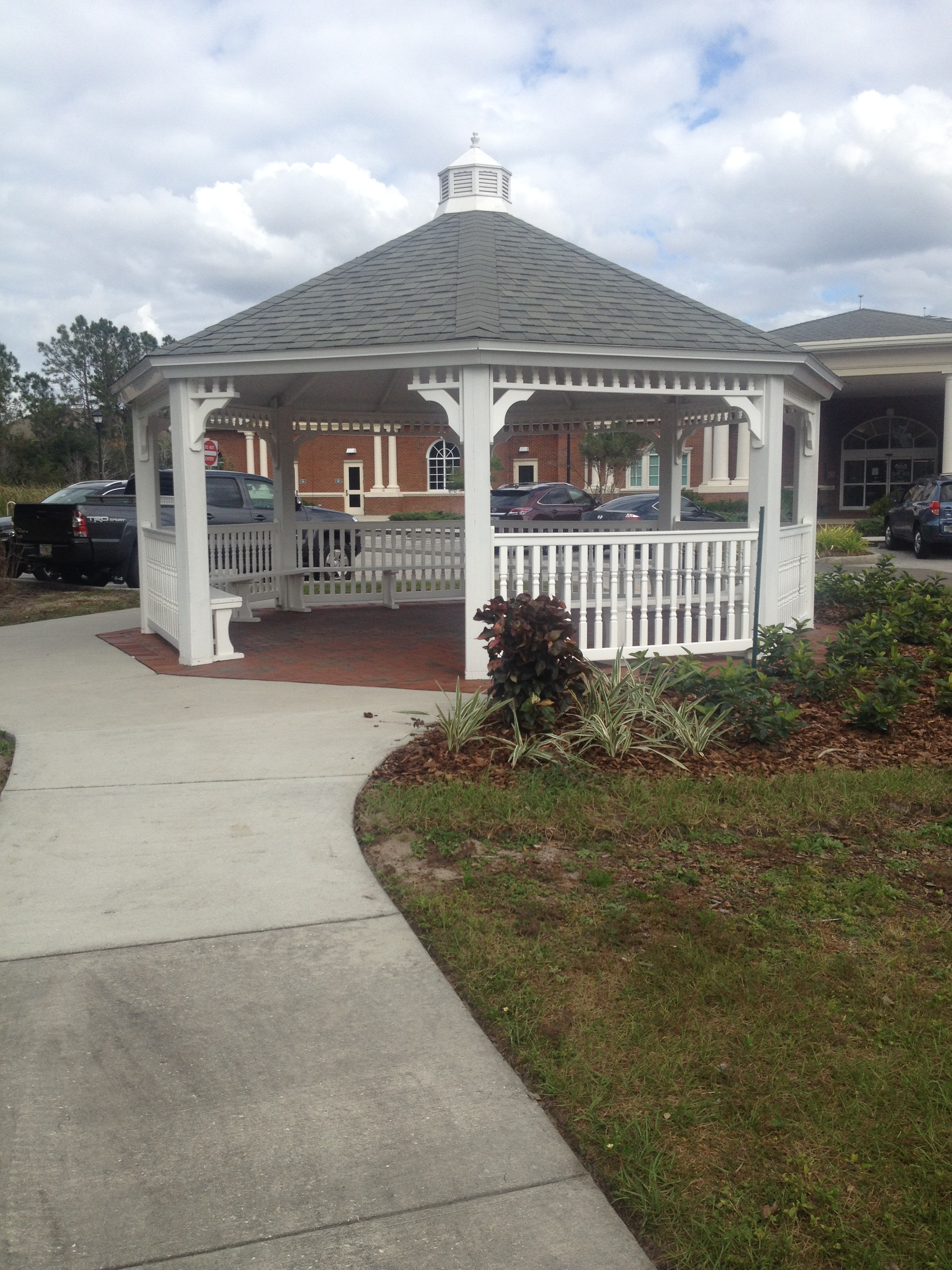 This is the gazebo that sits in front of the Upper Tampa Bay Regional Public Library in Tampa, Florida